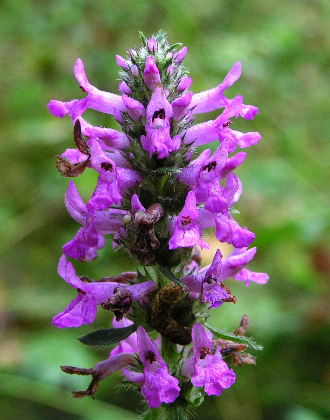 The inflorescence of Stachys officinalis. Moscow region, Russia.